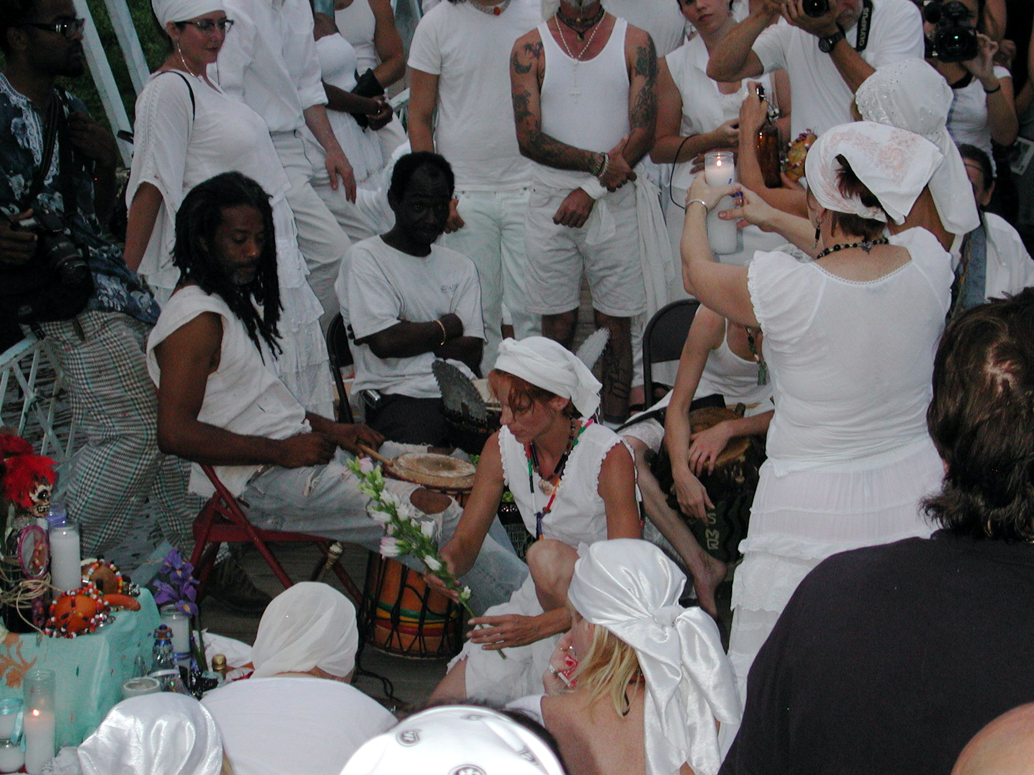 Voudou ritual, St. John's Eve, Bayou St. John, New Orleans.